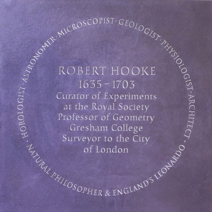 Carved inscription on The Monument, London: For centuries Robert Hooke's name was eclipsed from this interesting monument, erected to commemorate the Great Fire of London in 1666. as Sir Christopher Wren has tended to have been given the credit. Now the balance is restored and Hooke's part in the scheme is finally acknowledged. As part of a project to improve the area around the pillar in 2007 it was possible to take a space in the paving for a large (4ft square) carved stone. The stone was quarried at Caithness and made its long journey down to London to be carved at the workshop of Richard Kindersley. It can be seen from the entrance to the Monument Underground Station and is now included in sightseeing tours for tourists. Wording is by Dr. Allan Chapman.